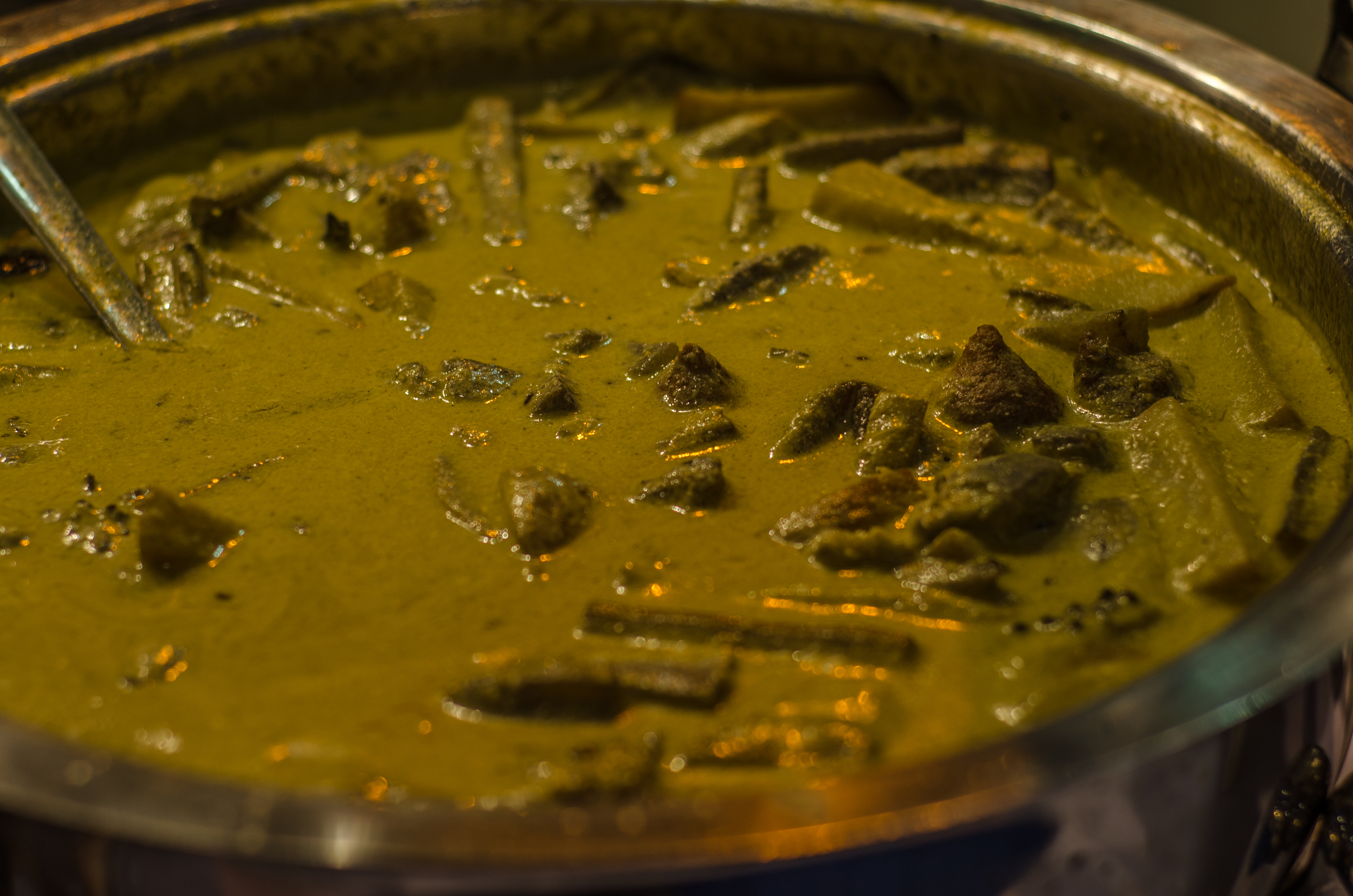 This image was taken in "Ahare Bangla" food festival